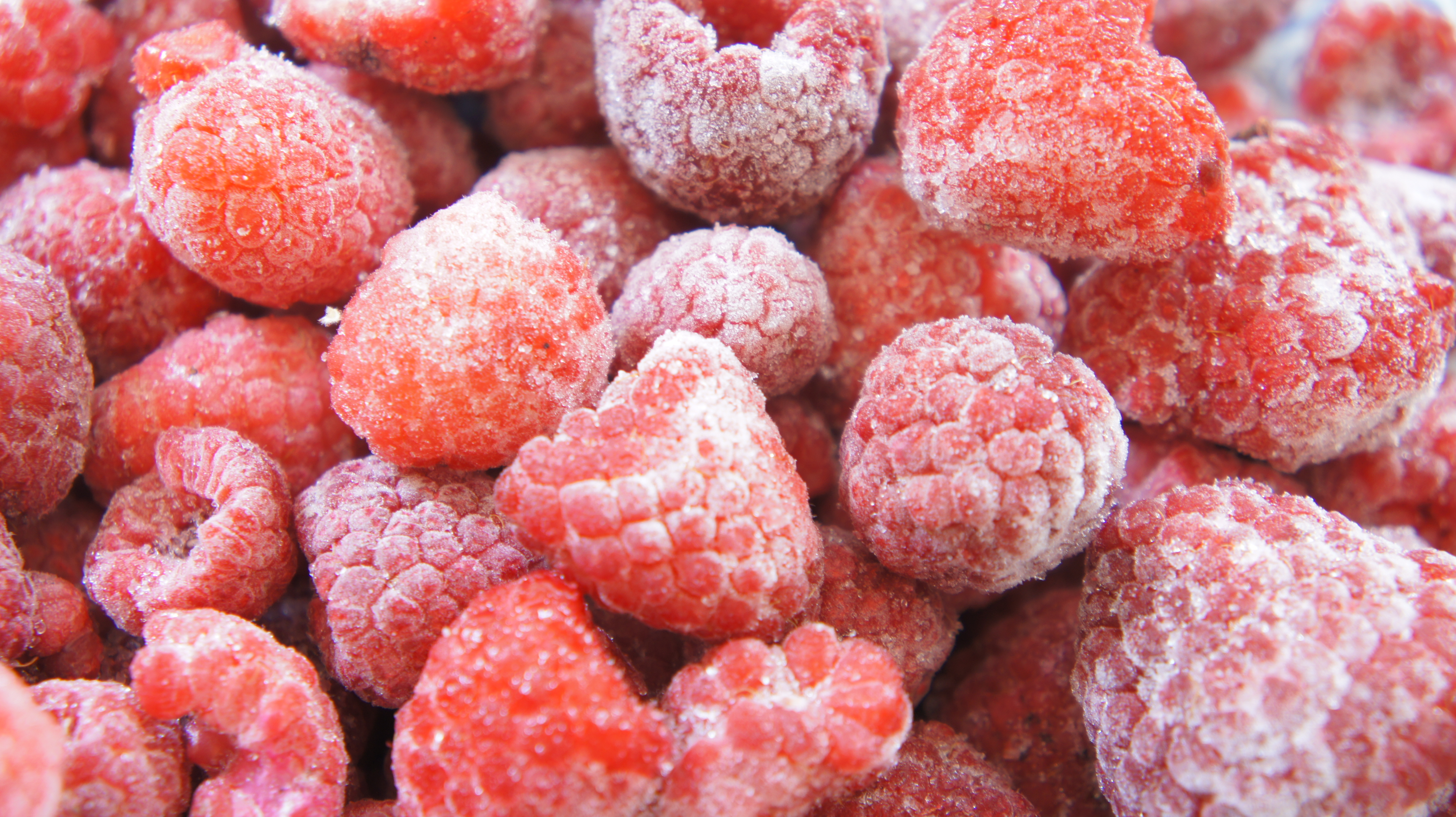 Raspberries are grown for the fresh fruit market and for commercial processing into individually quick frozen fruit, purée, juice, or as dried fruit used in a variety of grocery products. Traditionally, raspberries were a mid-summer crop, but with new technology, cultivators, and transportation, they can now be obtained year-round. This photo was created by my wonderful friend epSos.de. This beautiful picture can be used for free, if you link epSos.de as the original author of the image. Most liquids freeze by crystallization, formation of crystalline solid from the uniform liquid. This is a first-order thermodynamic phase transition, which means that, as long as solid and liquid coexist, the equilibrium temperature of the system remains constant and equal to the melting point. Raspberries are traditionally planted in the winter as dormant canes, although planting of tender, plug plants produced by tissue culture has become much more common. Thank you for sharing this picture with your friends !